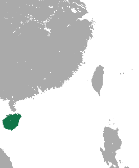 Hainan Hare (Lepus hainanus) range